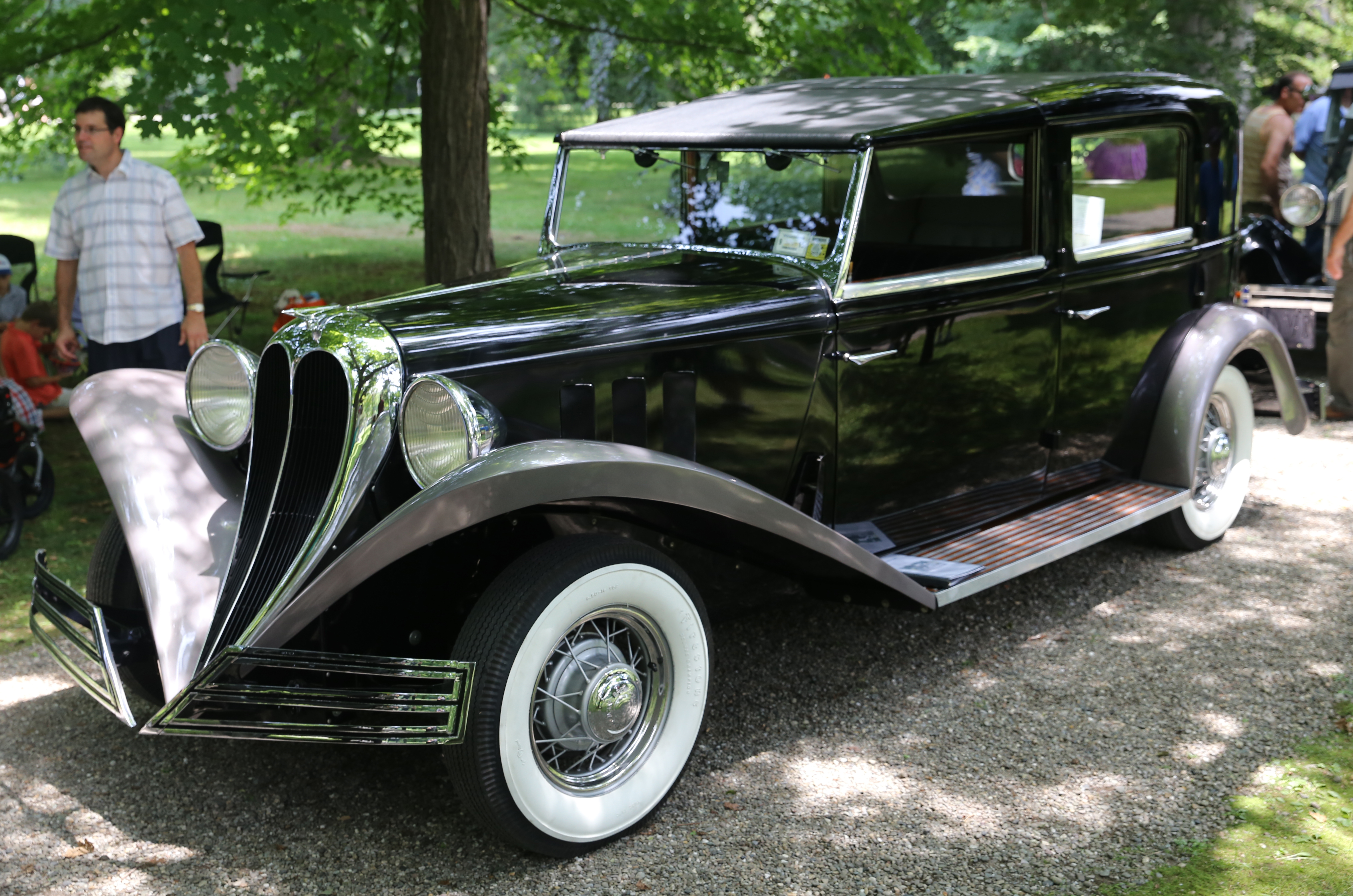 A 1934 Brewster Town Car Cabriolet, one of 83 thus bodied out of a total run of 135 cars. Body no. 9052, it sits on a stretched 127-inch wheelbase and has the expected 221-ci flathead V8. $3,500 new, when a regular Ford V8 could be had for a grand. The Ford chassis number is 181132871.